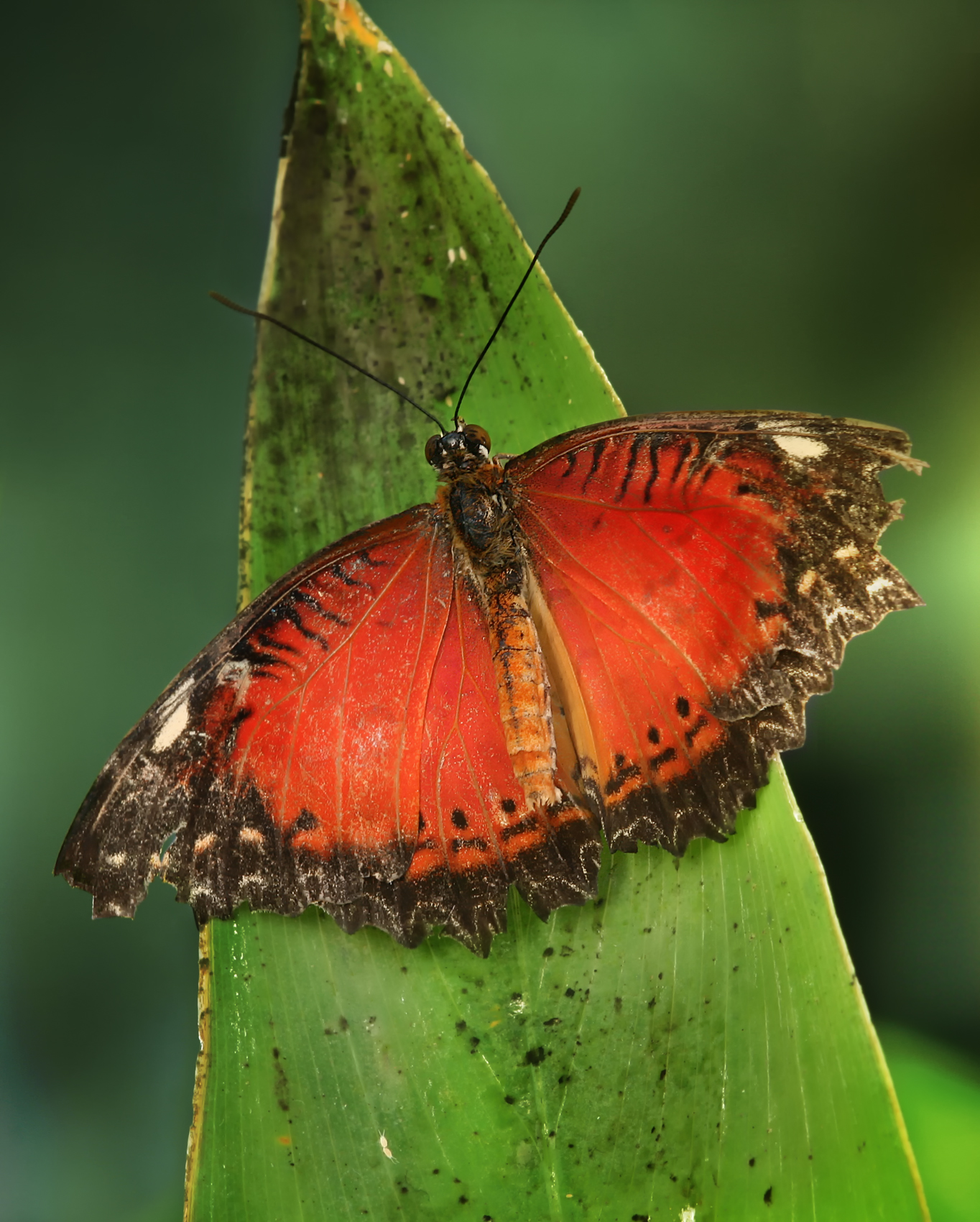 The Leopard Lacewing Cethosia cyane is a species of heliconiinae butterfly found in South Asia.